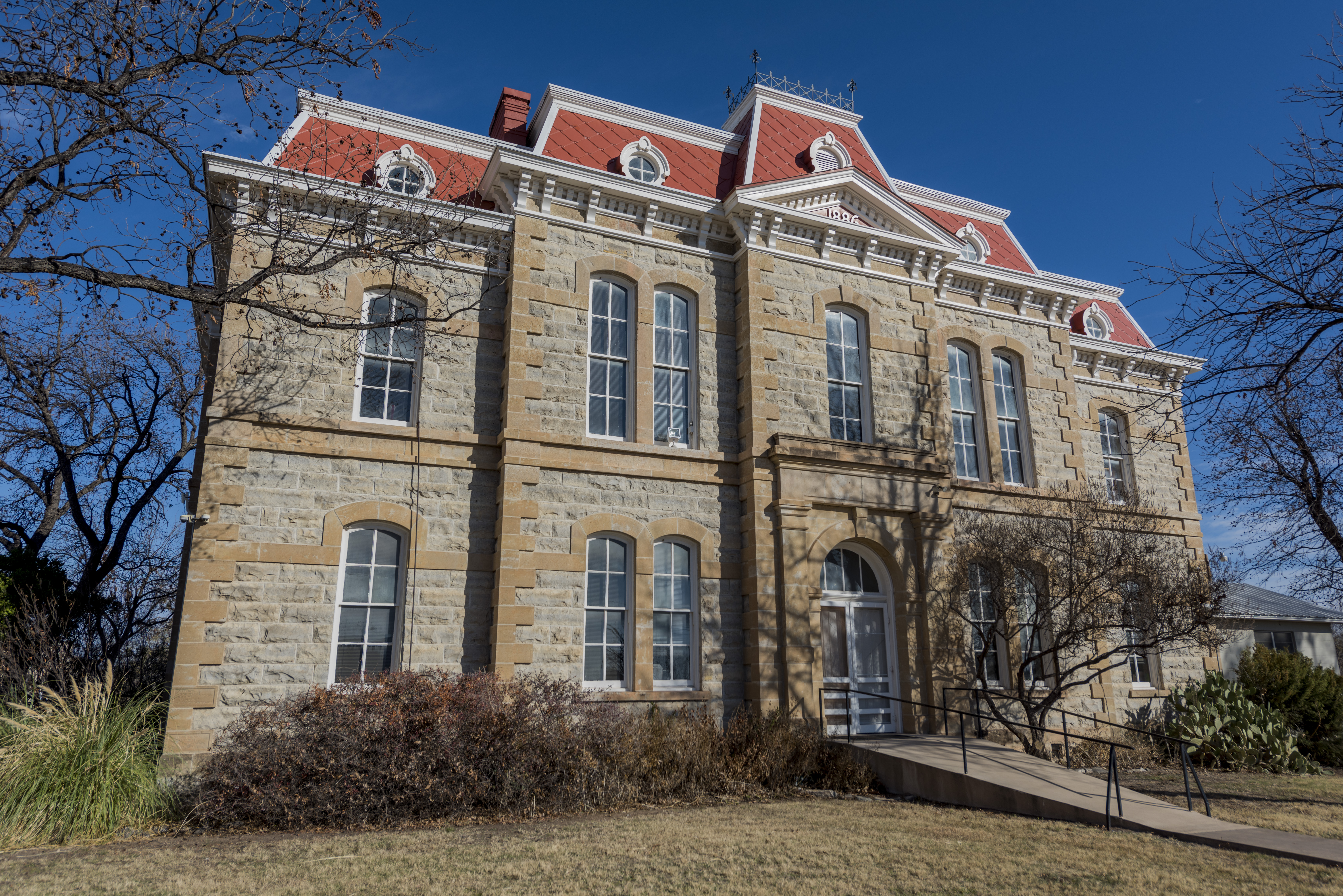 Image of the Concho County courthouse in Paint Rock, Texas. Image taken in December 2019